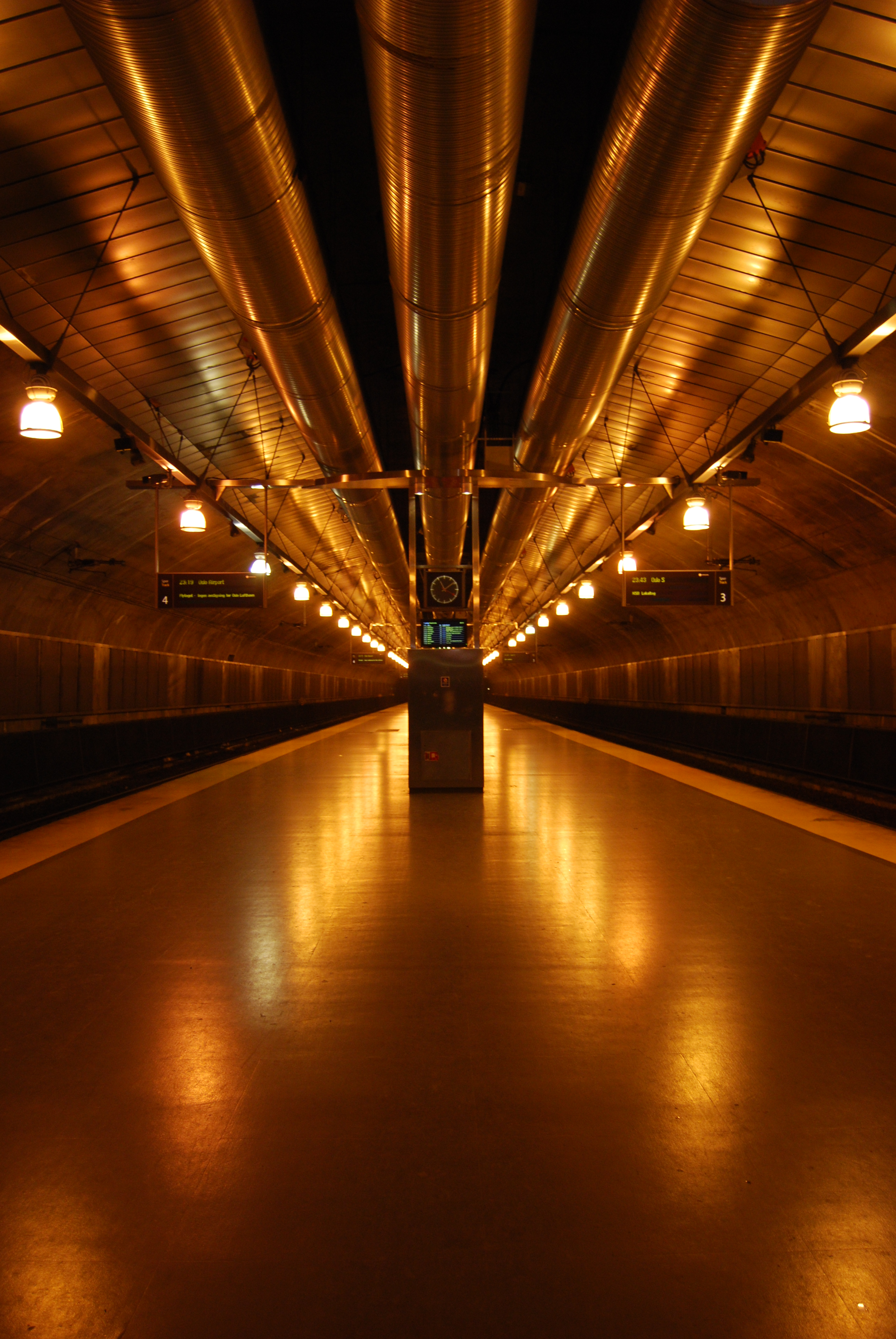 Nationaltheatret railway station, Oslo, Norway; the only underground railway station in the kingdom.